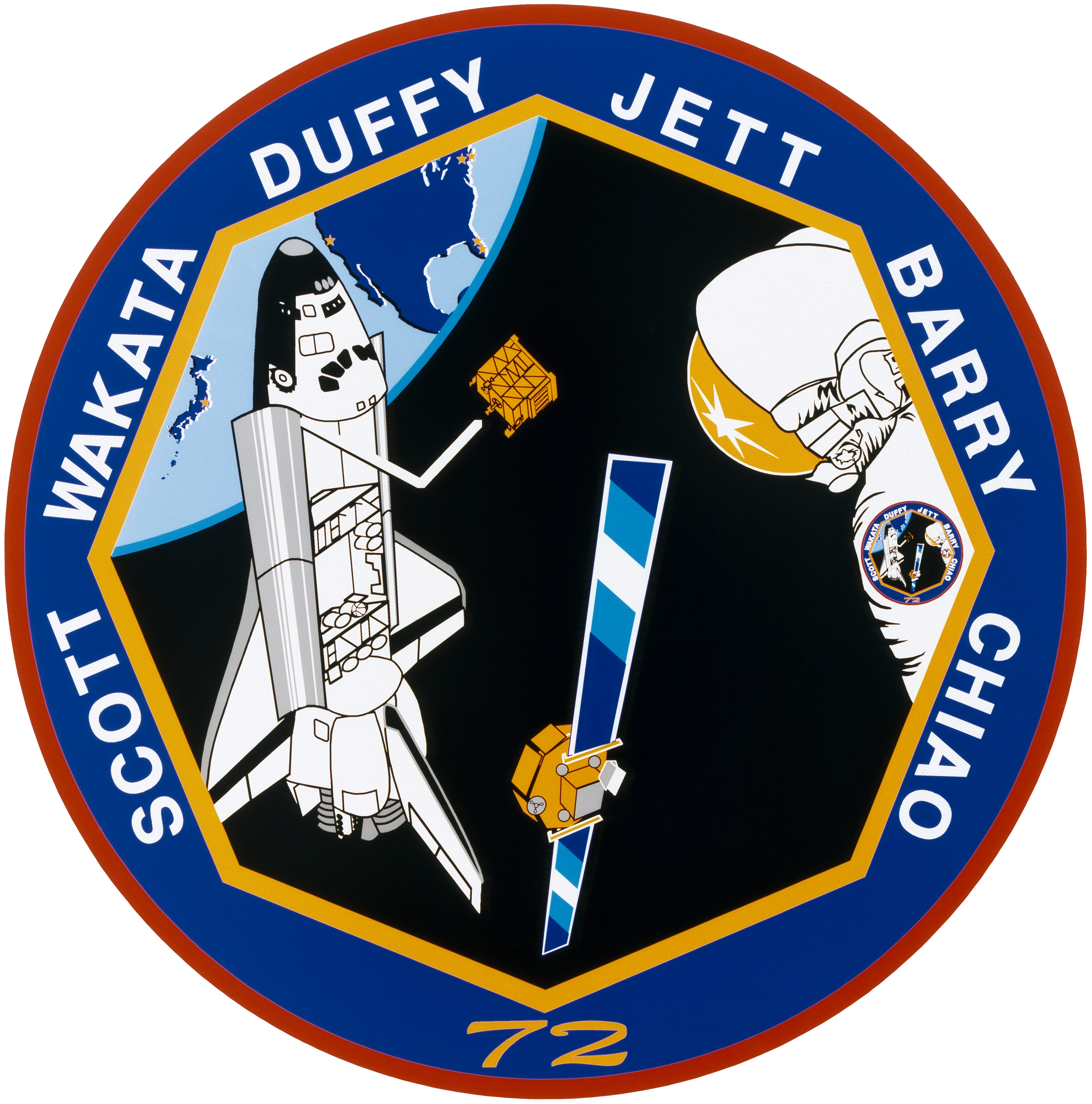 STS-72 Mission Insignia The crew patch of STS-72 depicts the Space Shuttle Endeavour and some of the payloads on the flight. The Japanese satellite, Space Flyer Unit (SFU) is shown in a free-flying configuration with the solar array panels deployed. The inner gold border of the patch represents the SFU's distinct octagonal shape. Endeavour's rendezvous with and retrieval of SFU at an altitude of approximately 250 nautical miles. The Office of Aeronautics and Space Technology's (OAST) flyer satellite is shown just after release from the Remote Manipulator System (RMS). The OAST satellite was deployed at an altitude of 165 nautical miles. The payload bay contains equipment for the secondary payloads - the Shuttle Laser Altimeter (SLA) and the Shuttle Solar Backscatter Ultraviolet Instrument (SSBUV). There were two space walks planned to test hardware for assembly of the International Space Station. The stars represent the hometowns of the crew members in the United States and Japan.